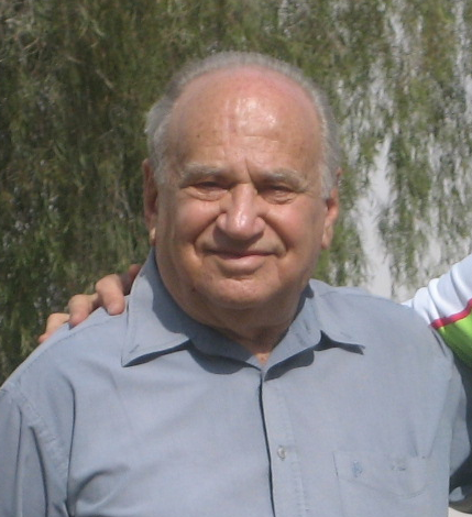 Arie "Lova" Eliav